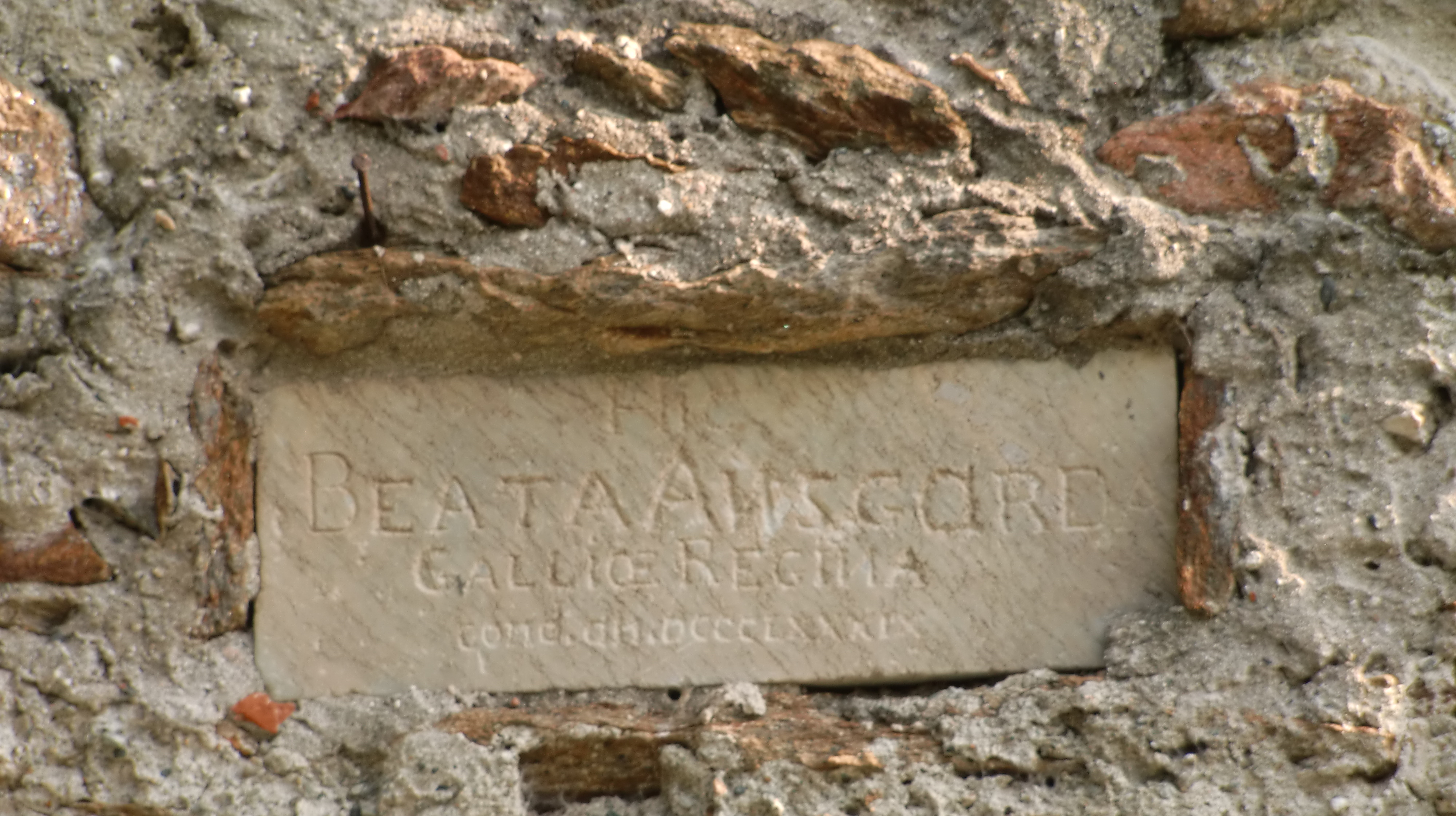 Pieve di San Lorenzo, Settimo Vittone, Italy; apocryphal plaque dedicated to Ansgard (IX century), repudiated wife of the king of France